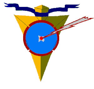 Emblem of the SAC 560th Strategic Fighter Squadron